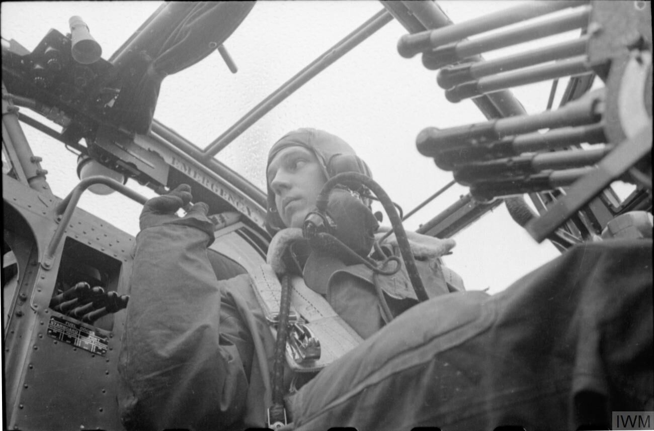 IWM caption : The pilot of a Handley-Page Halifax of No. 35 Squadron in his position prior to take-off at Linton-On-Ouse, Yorkshire.